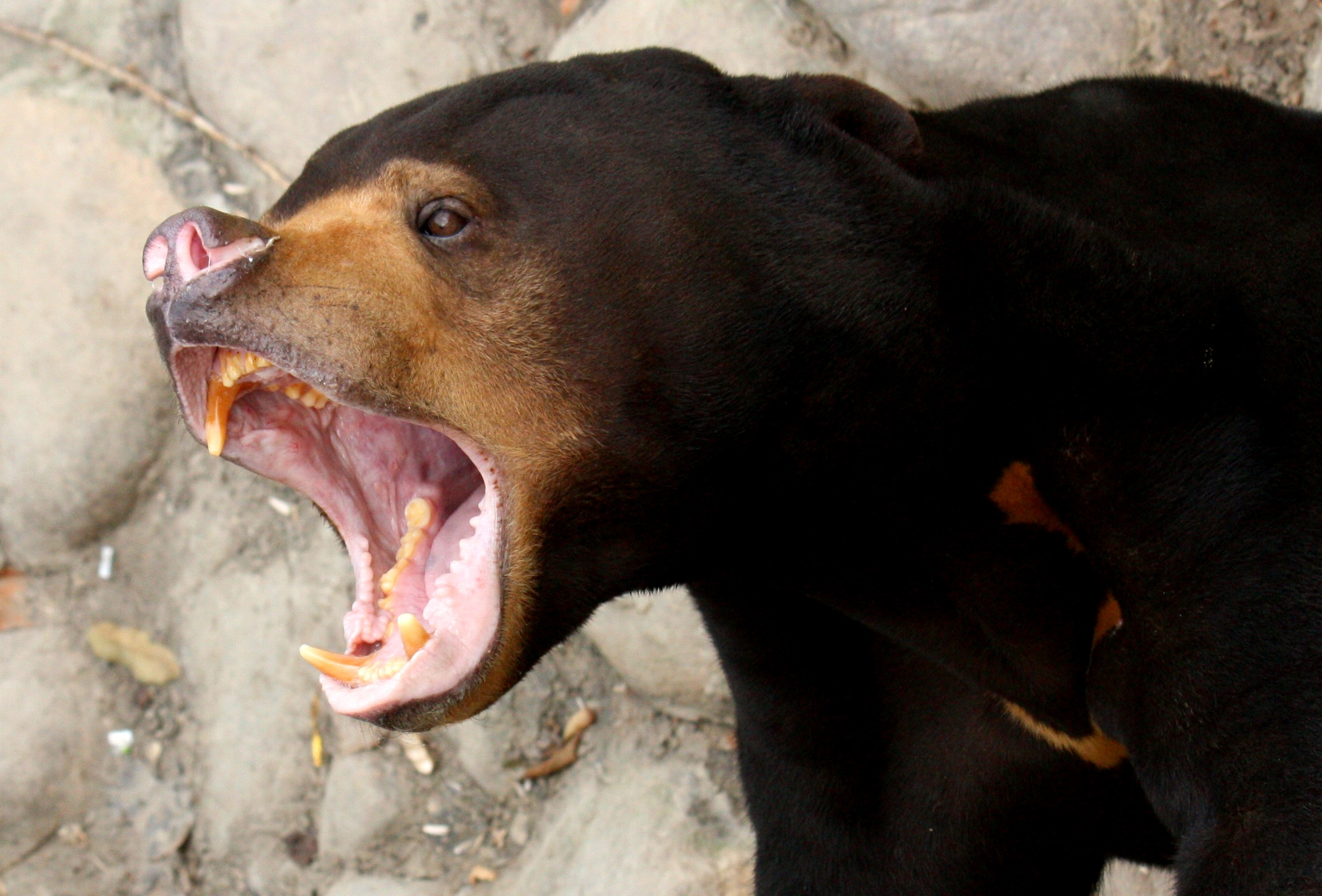 Helarctos malayanus, Shanghai Zoo